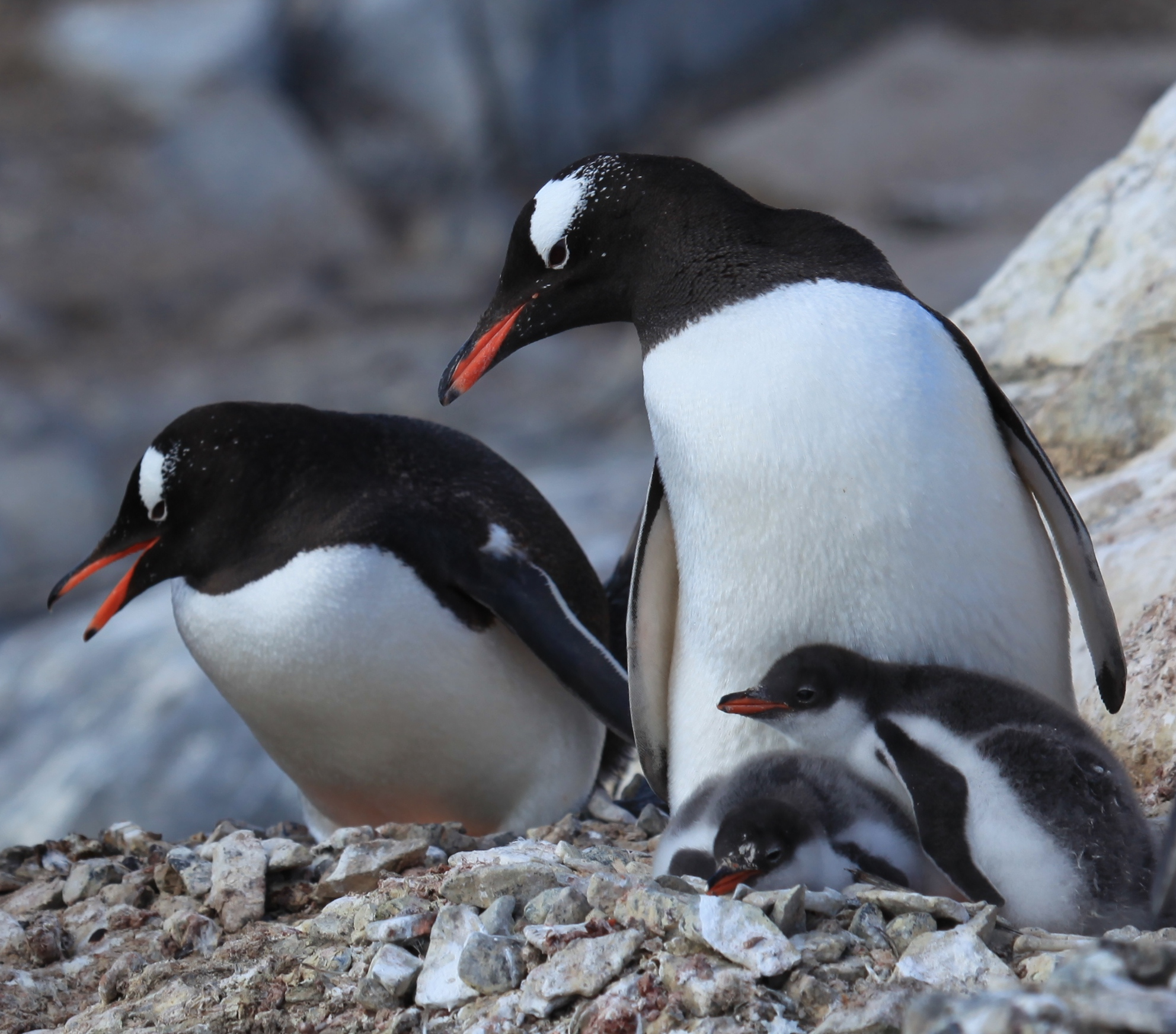 Adult Gentoo Penguins with two chicks at Jougla Point, Wiencke Island, Palmer Archipelago, of the Antarctic Peninsula.